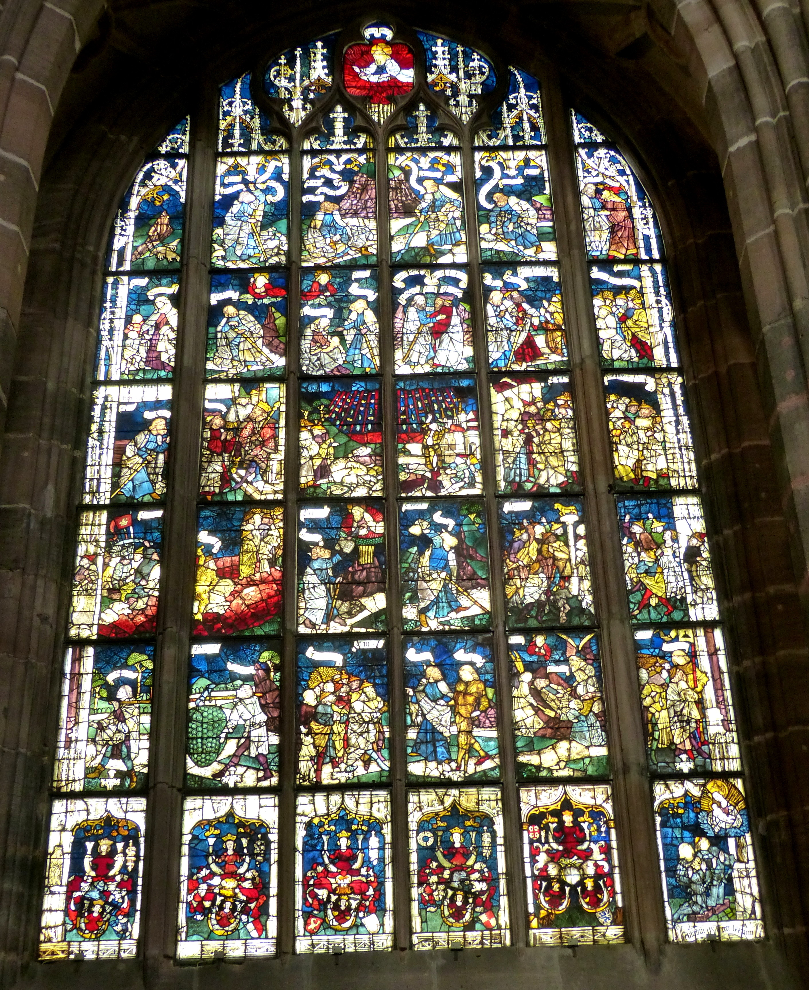 Nuremberg ( Middle Franconia ). Saint Lawrence parish church: Stained glass window ( 1480 ), donated by Sebald and Peter Rieter..